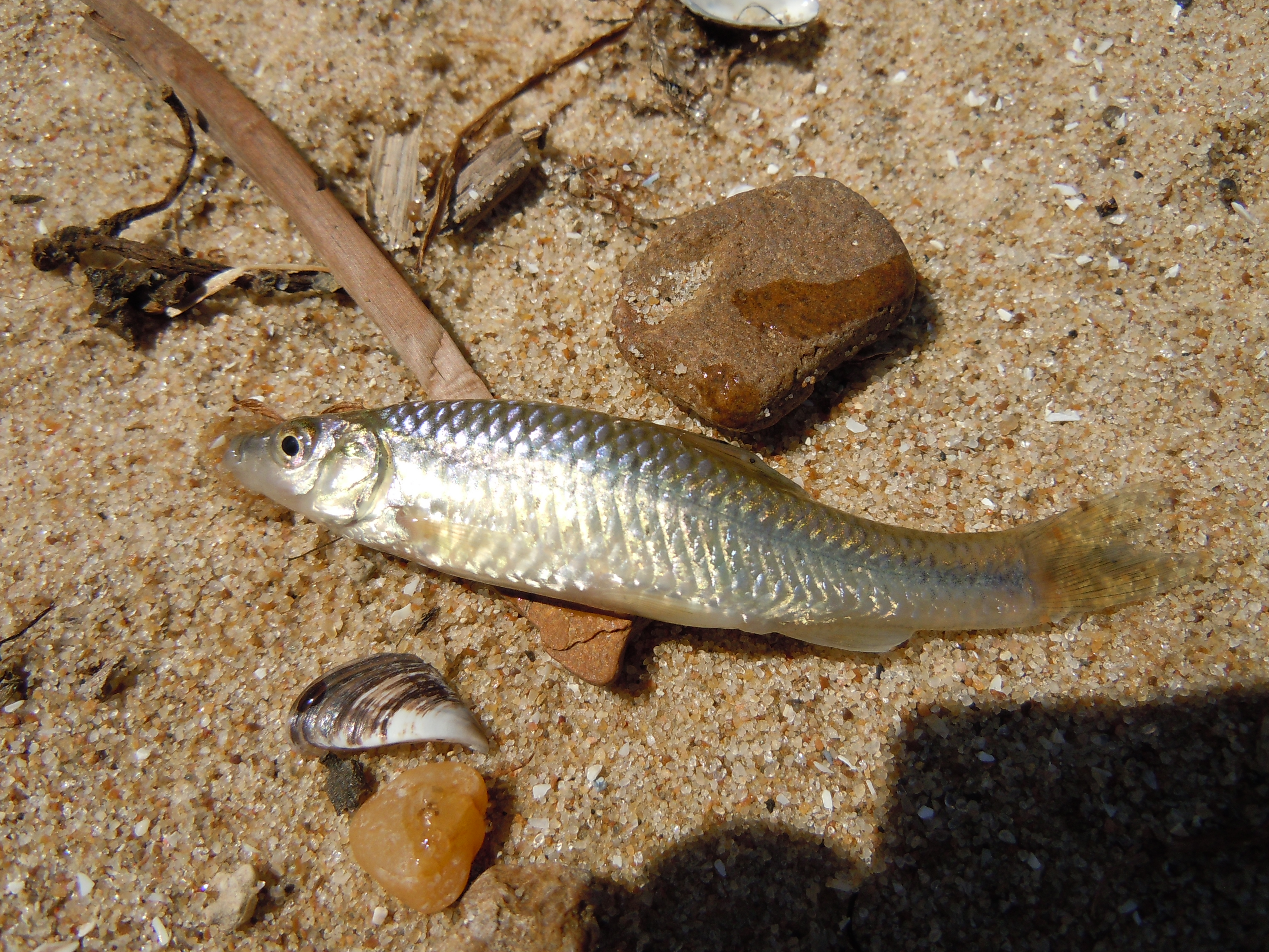 Invasive Stone moroko from the Dniester Estuary, Ukraine